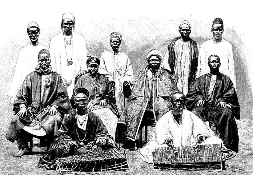 The Afican King of the Nalus people, Dinah Salifou, with the queen and her retinue